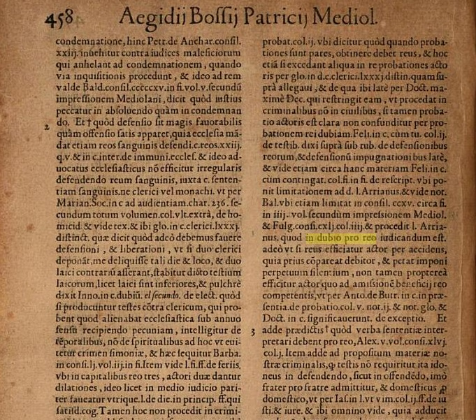 The page from the treatise of Egidio Bossi, where the phrase in dubio pro reo is used.